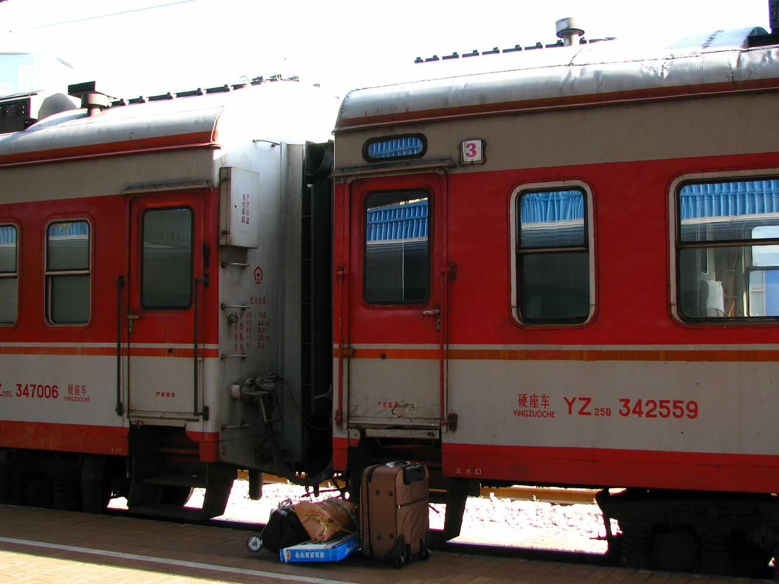 Difference between China Railways 25G and 25B air-conditioned passenger coaches.